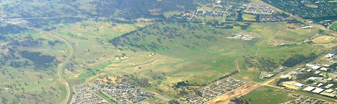 aerial view of Kenny, Australian Capital Territory greenfield suburb site